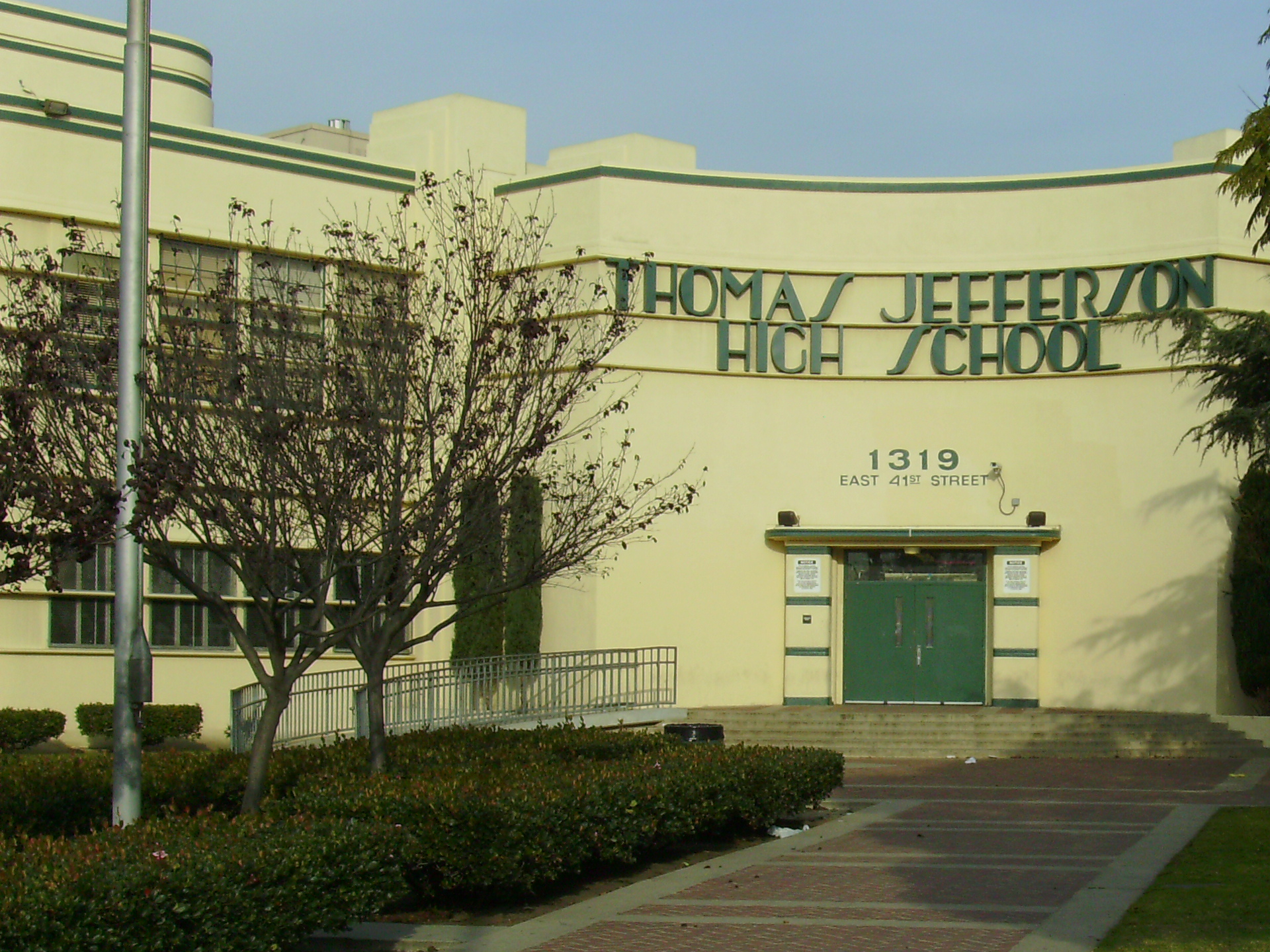 The front entrance of Thomas Jefferson High School